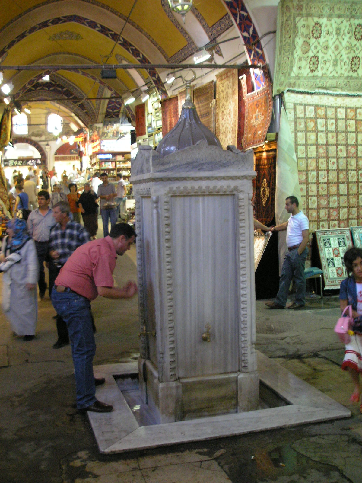 Drinking fountain made out of marble in the Grand Bazaar.